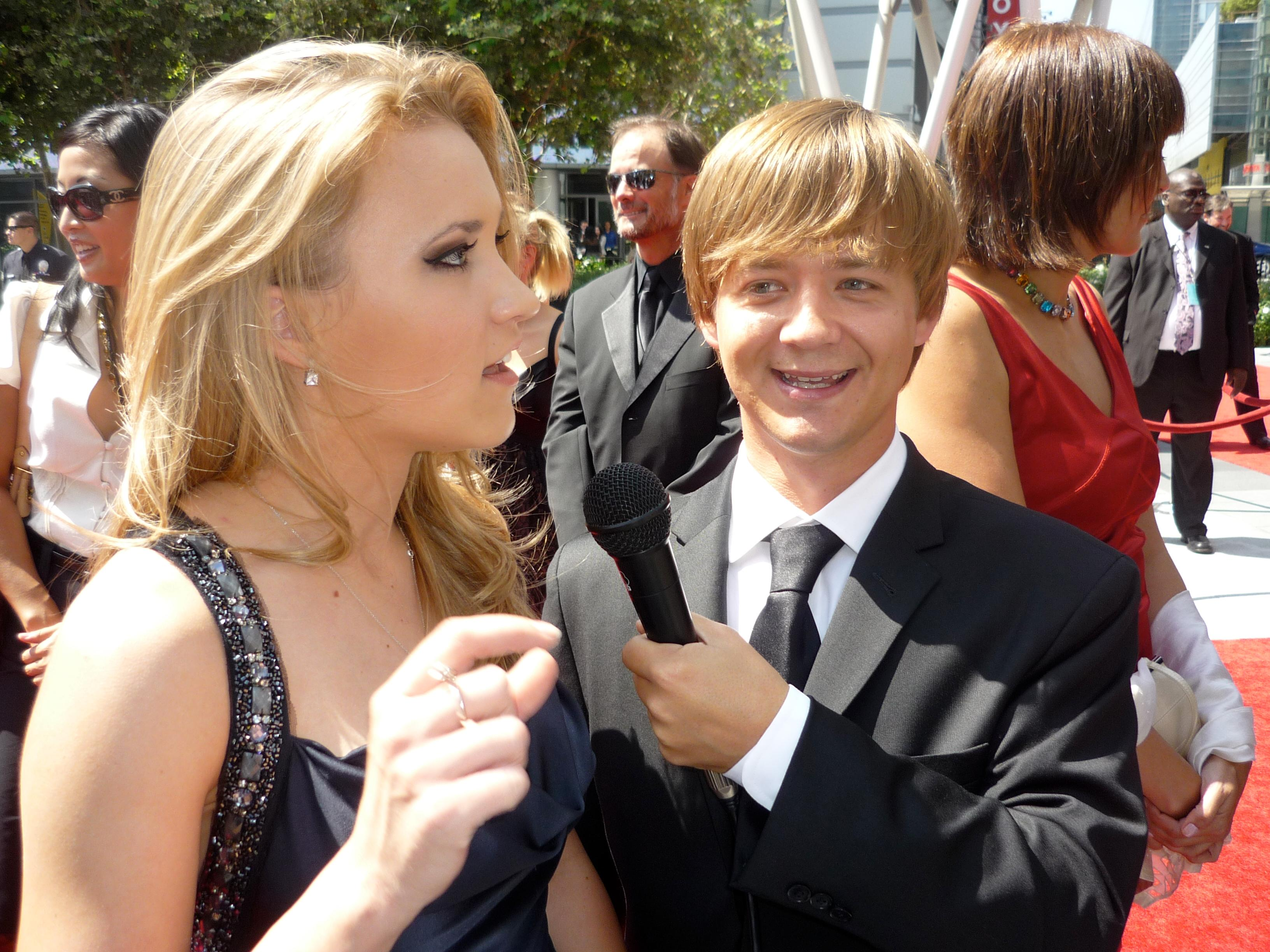 Emily Osment and Jason Earles at the Creative Arts Emmys on Saturday night.